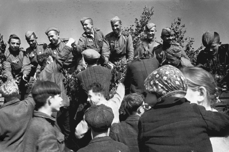 1944, Latvian residents welcoming the Red Army liberating the territory from the Nazi occupation.